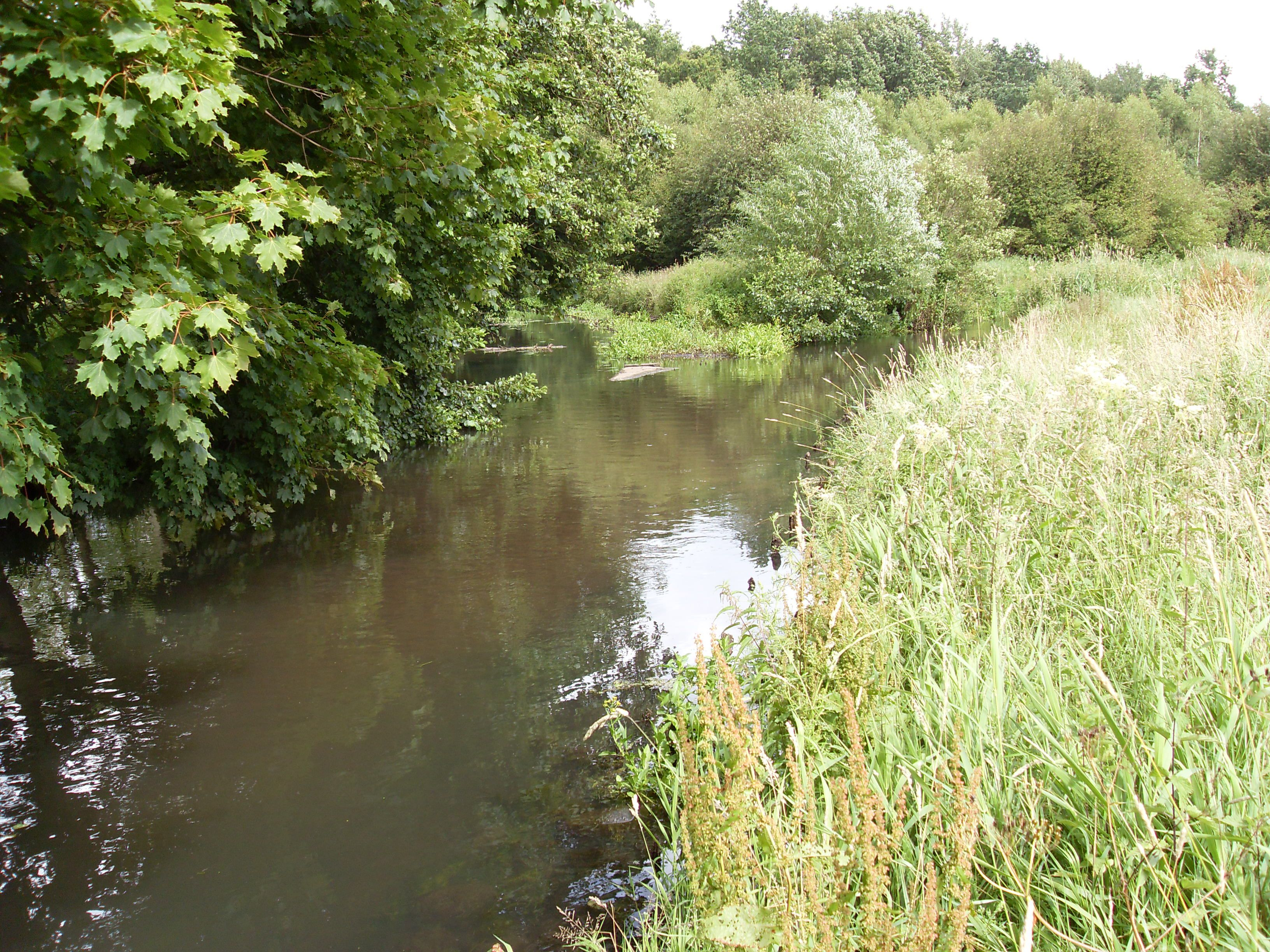 Mouth of river Schwale (left) into river Stör (right)